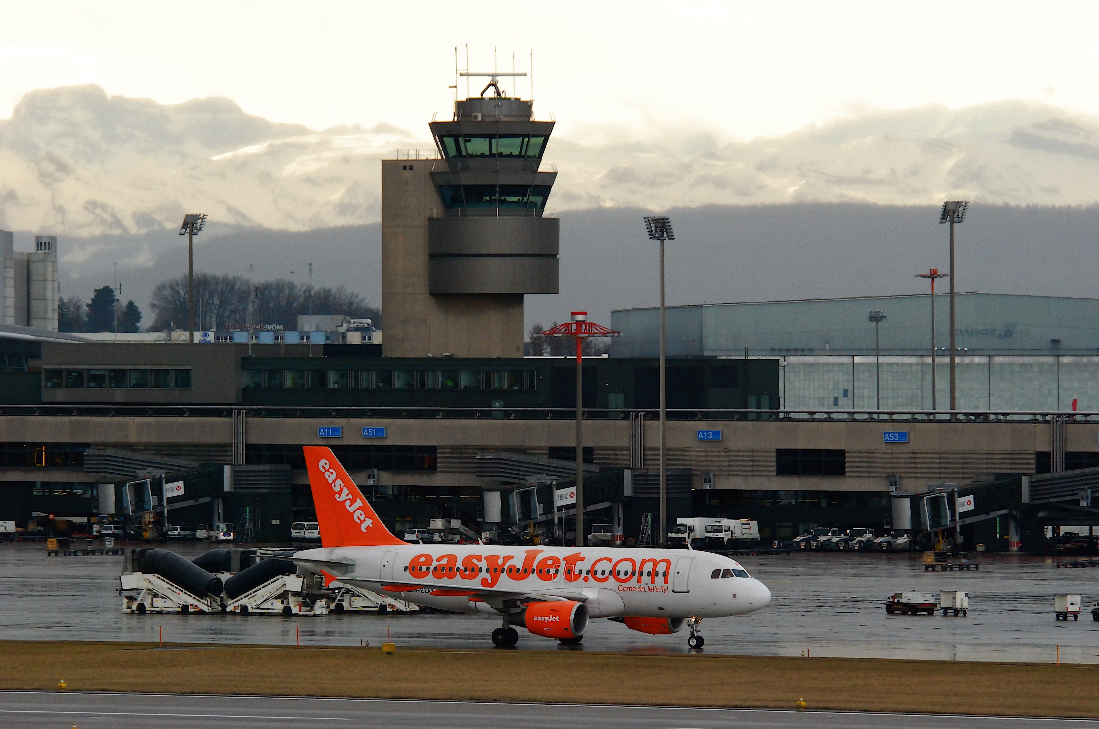 EasyJet Airbus A319; G-EZAY@ZRH;28.02.2010/565be